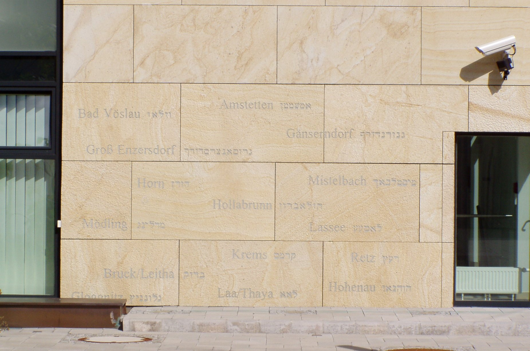 Wall of the synagogue in Baden (Austria) in 2006